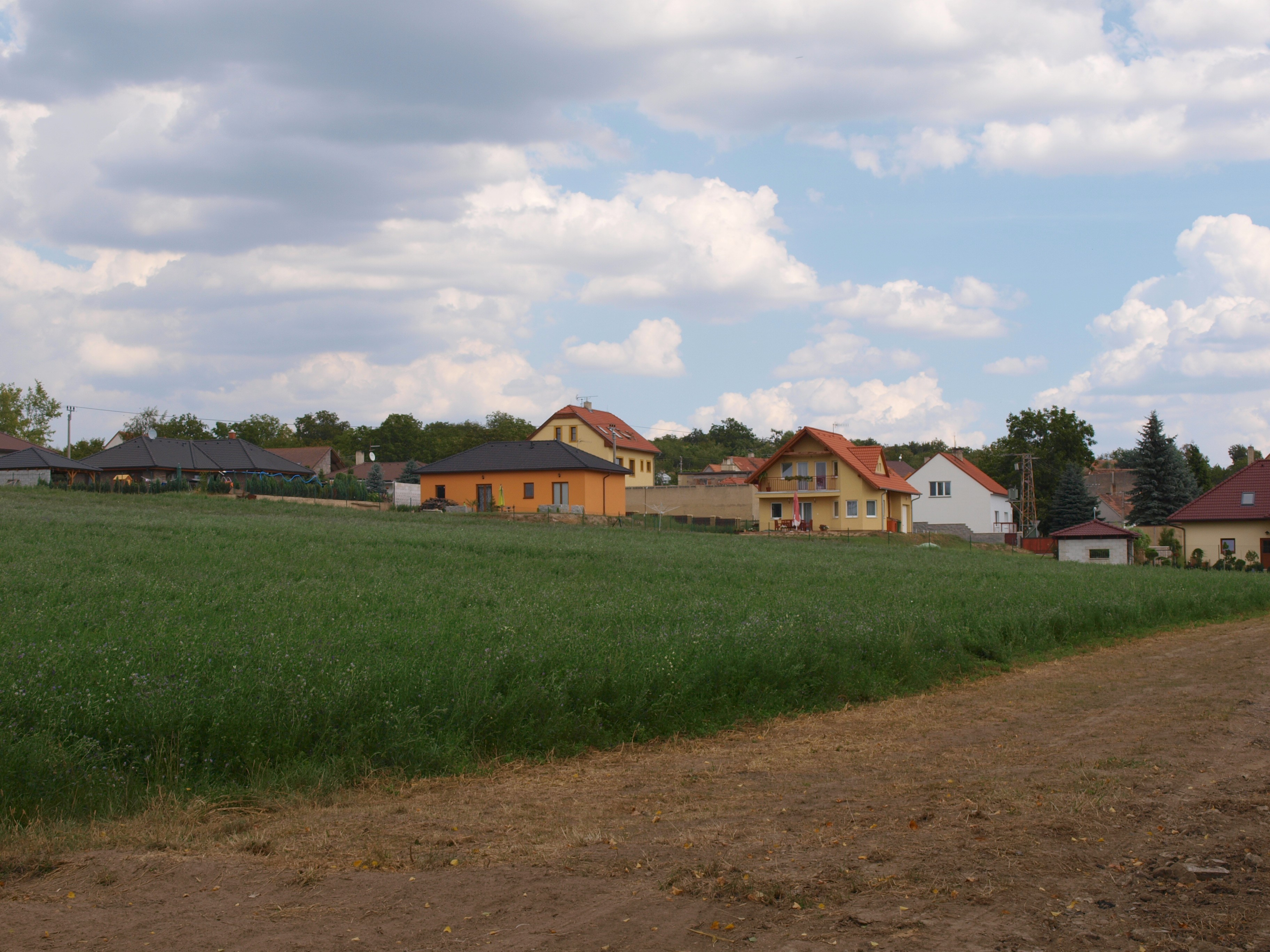 View from Kamenný Most, Neuměřice, Kladno District, Czech Republic